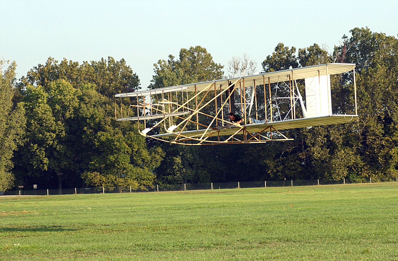 Mark Dusenberry flying replica of 1905 Wright Flyer III